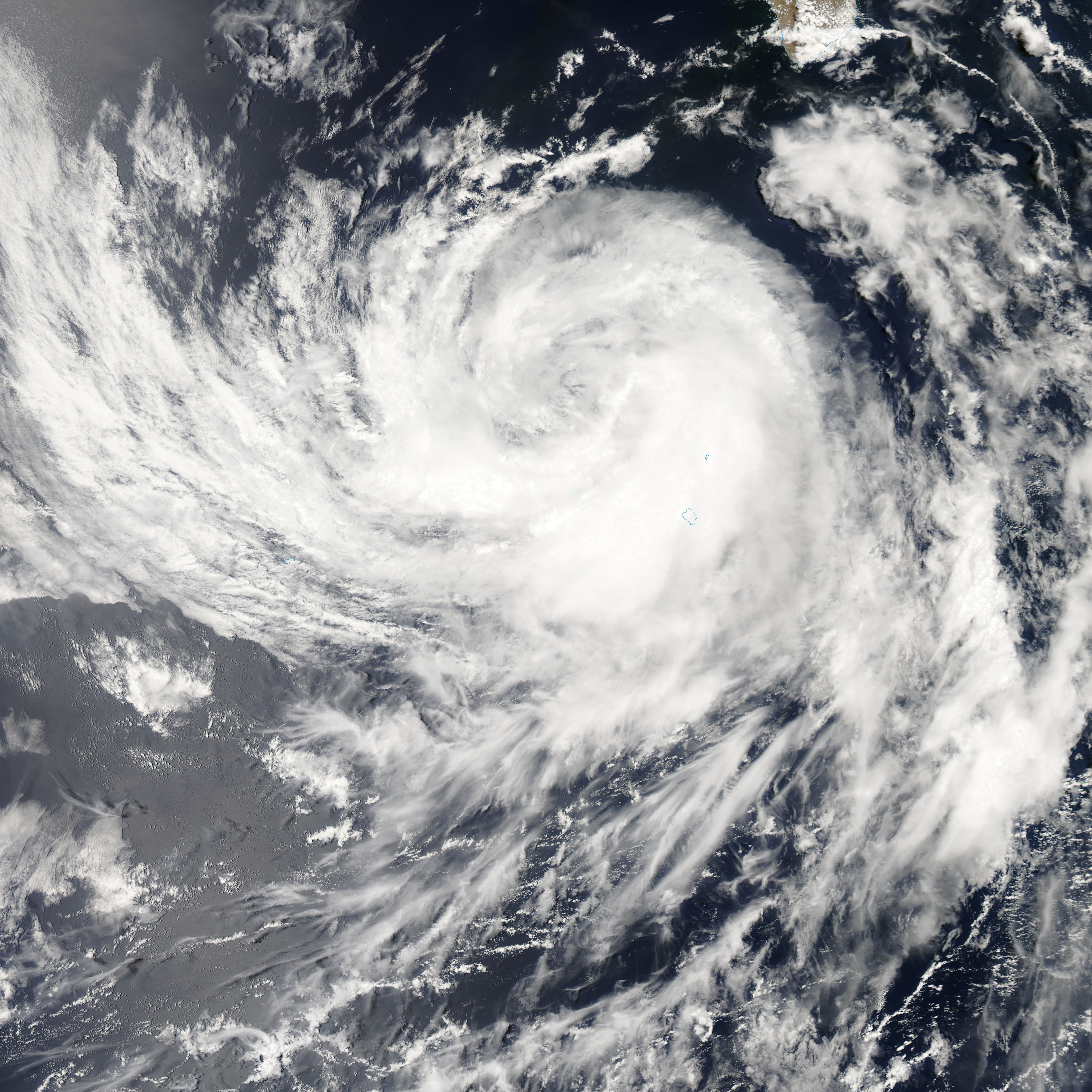 Tropical Storm Dalila is shown in this image, captured by the MODIS on the Aqua satellite on Wednesday, July 25, 2007. Out over Mexico's Pacific coast, the storm weakened, but still dumped a lot of rain on Baja California on Thursday. By Friday, it weakened into a tropical depression. Tropical Storm Dalila was the eighth tropical system to form in the East Pacific during the 2007 season, and the fourth named storm. Dalila formed south of Baja California and arced northwest over cooled waters as it degraded.